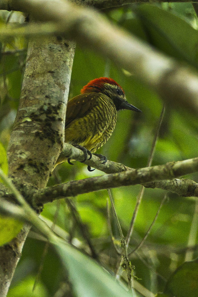 Yellow-vented Woodpecker - Colombia_S4E8871